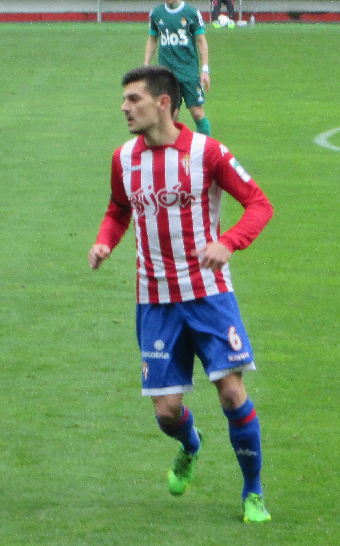 Sergio Álvarez, in a game for Sporting de Gijón vs SD Ponferradina